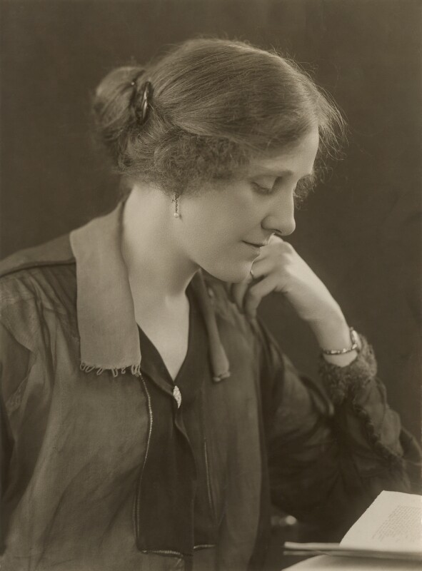 Dorothea Ruggles-Brise 1921 by Bassano (no photographer known)